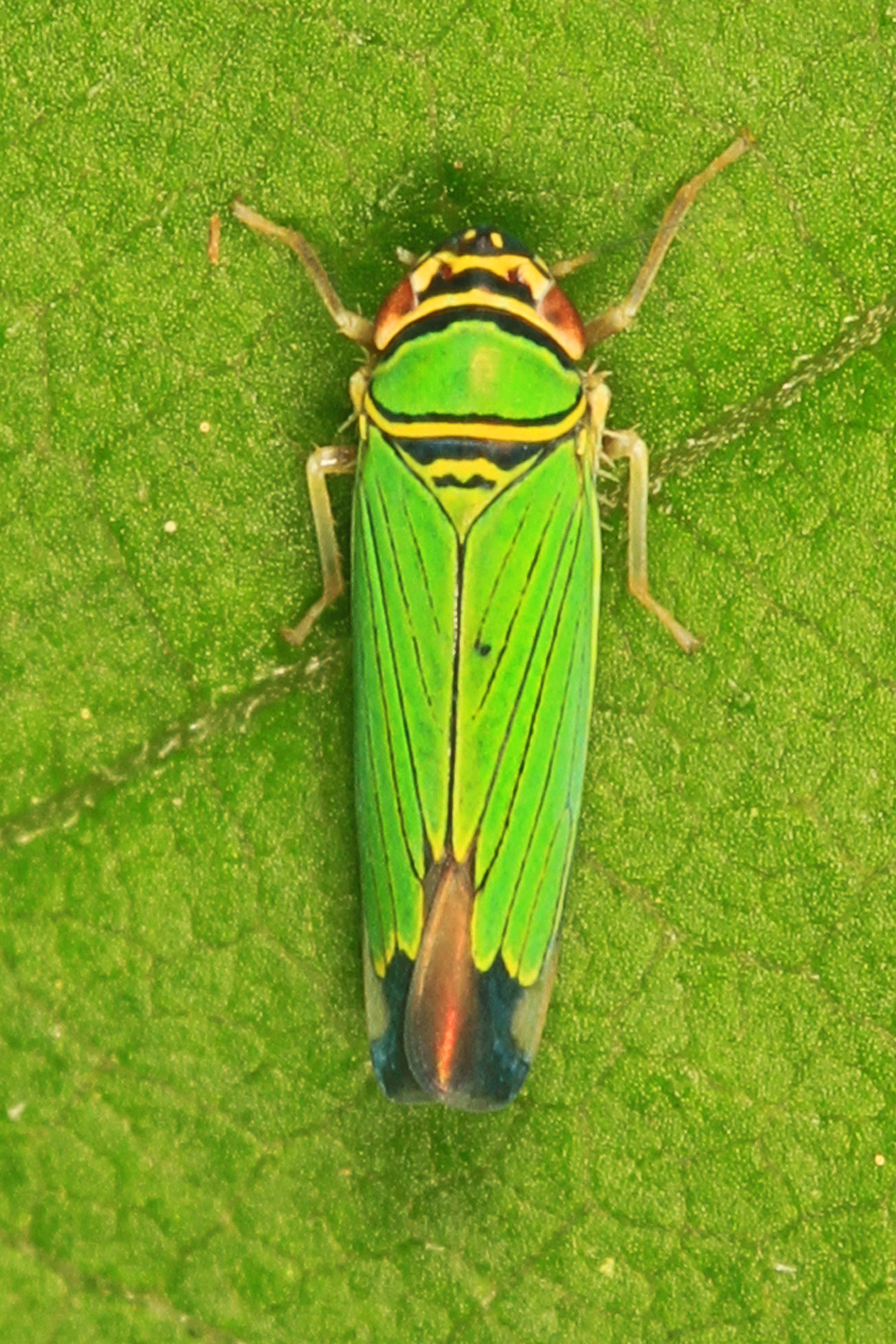 Leafhopper - Tylozygus geometricus, Kelly's Ford, Virginia.